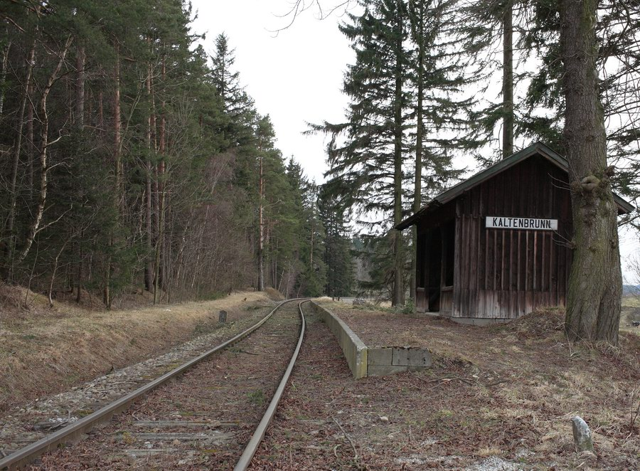 Haltestelle Kaltenbrunn, Lower Austria, Austria